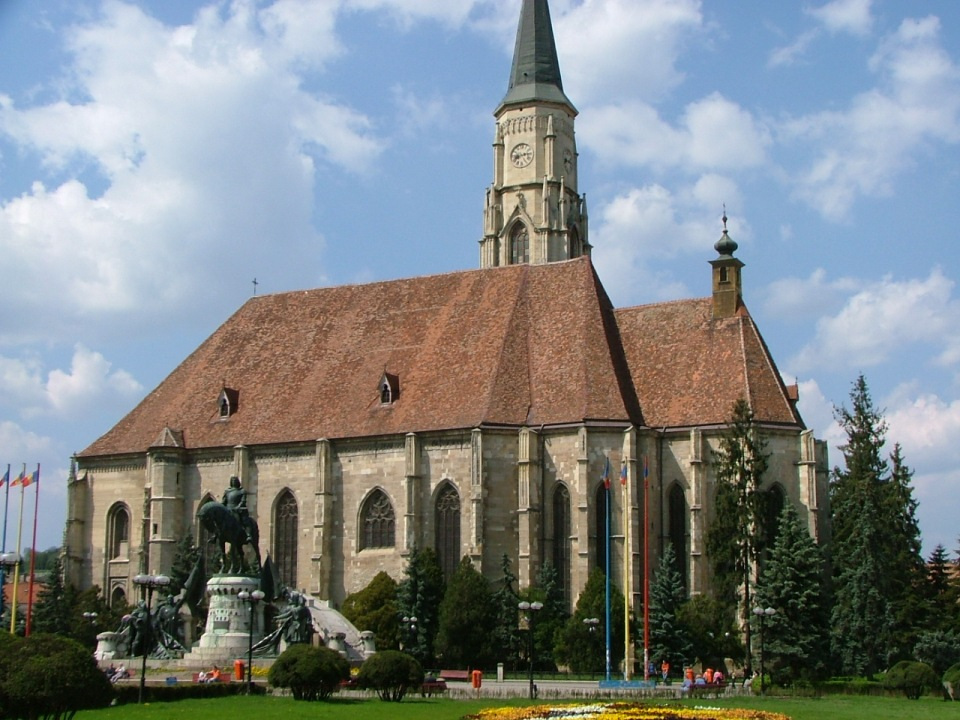 Saint Michael Church, Cluj-Napoca, Romania